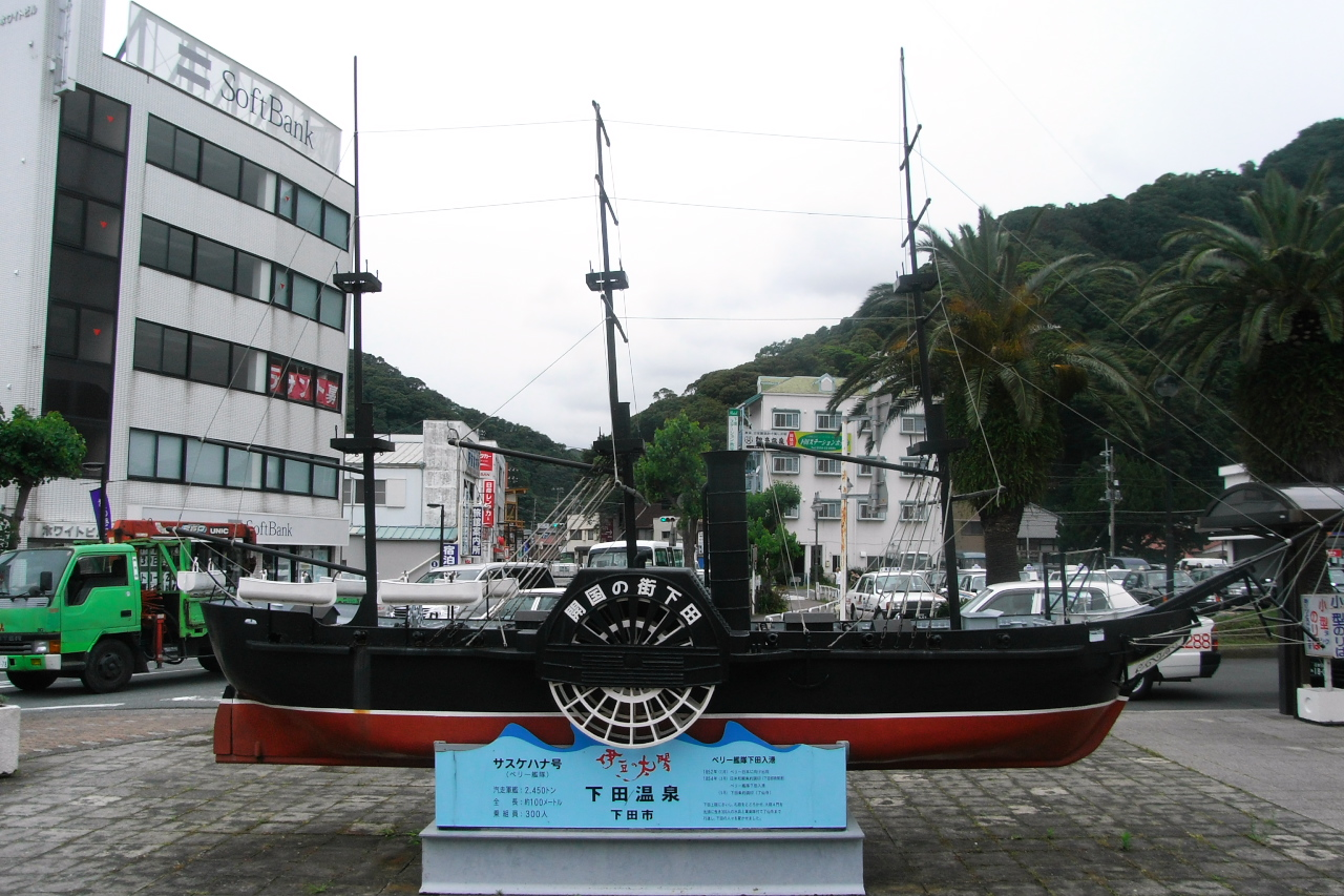 USS Susquehanna model in Shimoda station square, Shizuoka, Japan